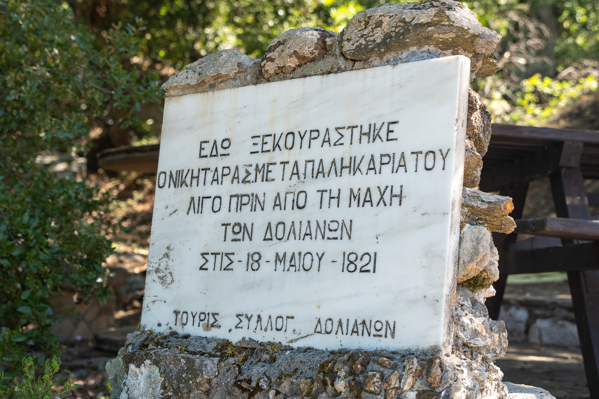 Commemorative plaque at Agios Ioannis chapel of Ano Doliana, Arcadia, Greece. It reads: "Here is were Nikitaras rested with his klephts shortly before the Battle of Doliana on May 18, 1821. Doliana Tourist Association."